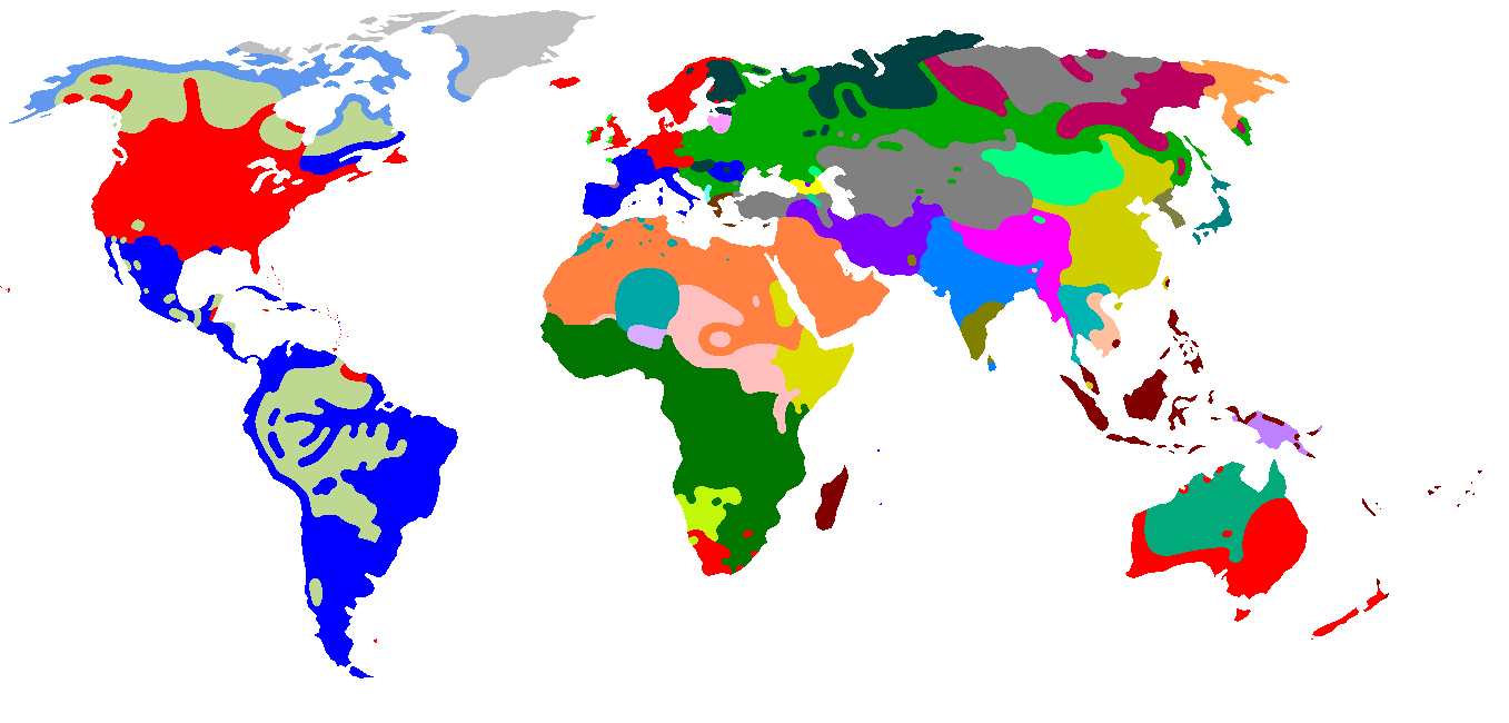 Repartition map of the languages over the world (version blank of key).